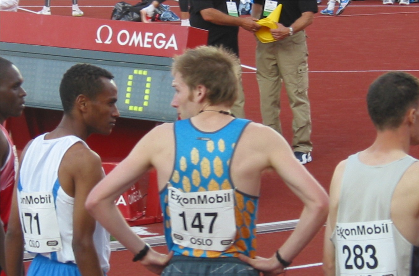 Marius Bakken (#147) during the Bislett Games on July 29, 2005. On the left Bado Worku (171), on the right Khoudir Aggoune (283).